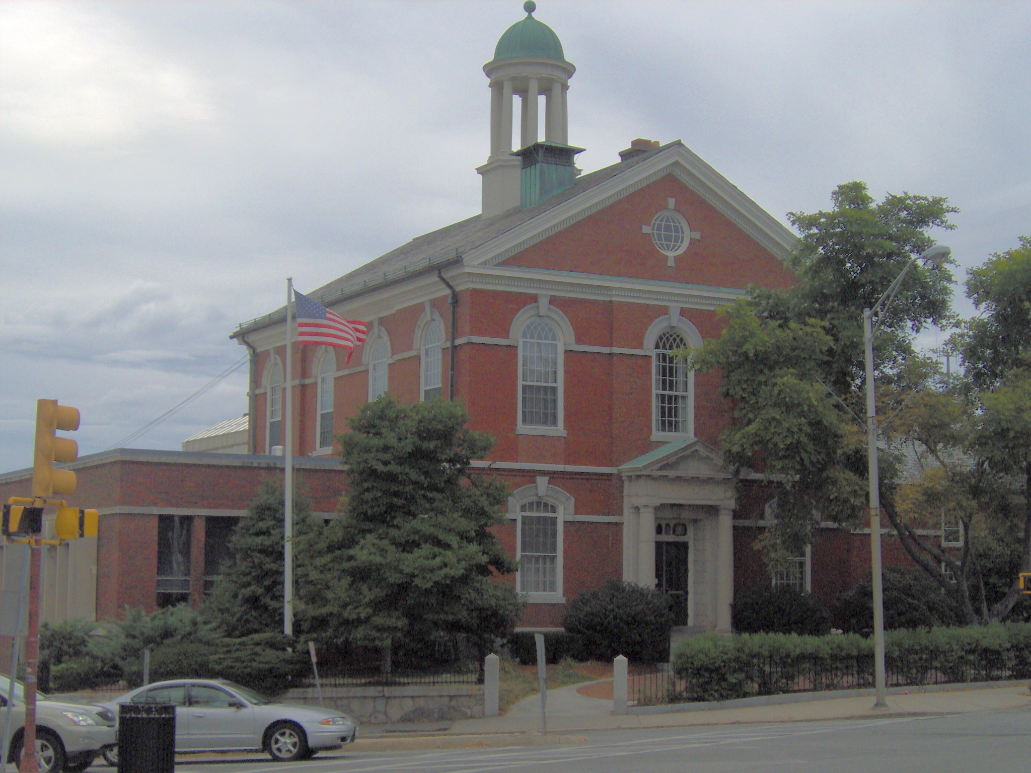 self taken, late August 2005